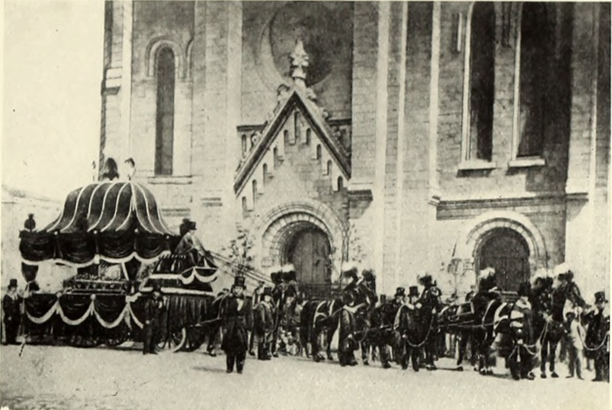 Title: The assassination of Abraham Lincoln Year: 1865 (1860s) Authors: Lincoln Financial Foundation Collection Subjects: Lincoln, Abraham, 1809-1865 Funeral rites and ceremonies Publisher: Text Appearing Before Image: Entered according to Act of Congress in the year 18&5. by Hknszky & Co., photogeaphees No 812 Arch wtin the Clerks Office of the District Court, for the Eastern District of Pennsylvania. Photographed by Authority of City Councils. )Vo. 3. APRIL 22d, IS65. Text Appearing After Image: Collection nf Americana, F. H. Meserve. President Lincolns IIioaksi Digitized by the Internet Archive in 2012 with funding from Friends of The Lincoln Collection of Indiana, Inc.